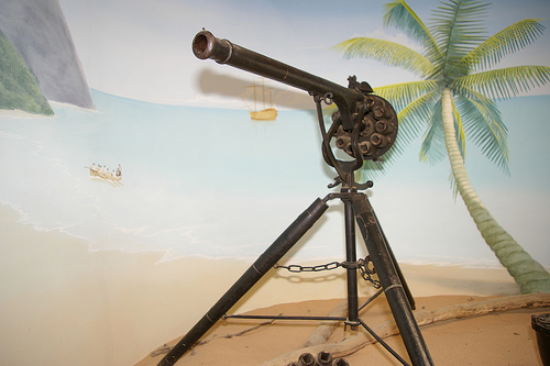 Repica of a Puckle gun of 1718, an early revolver cannon, at Buckler's Hard Maritime Museum, UK.